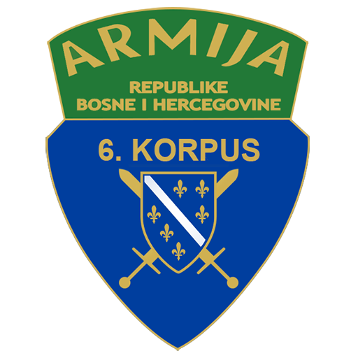 Logo of the 6th corps.